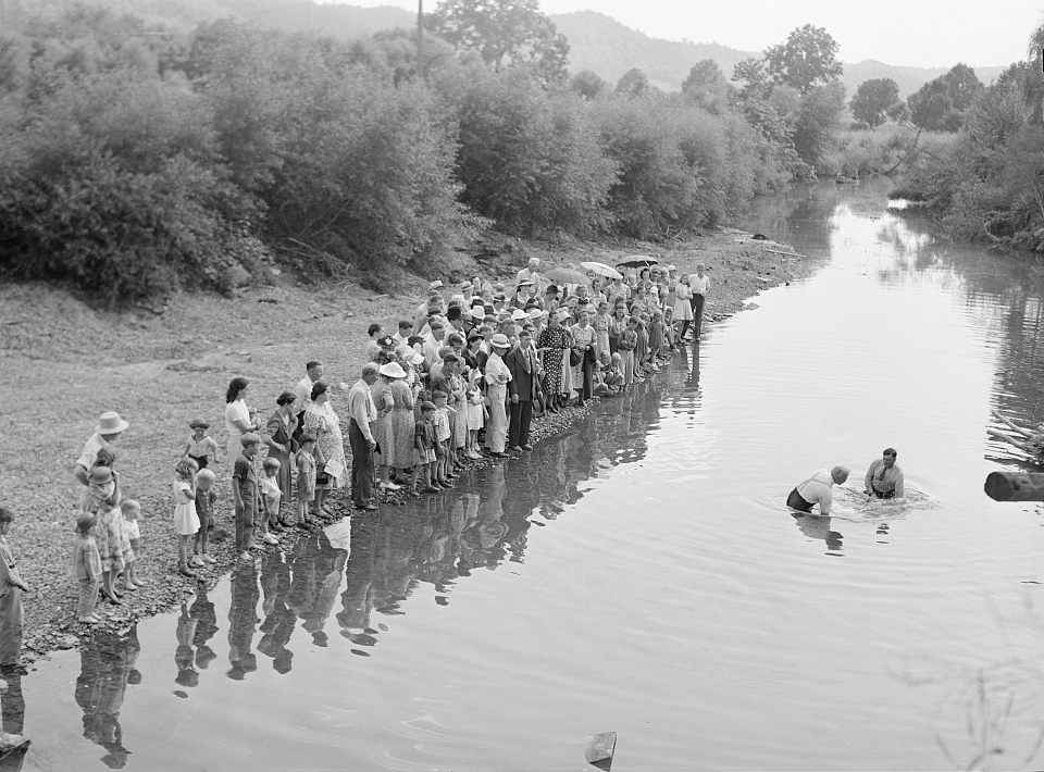 Members of the Primitive Baptist Church in Morehead, Kentucky, attending a creek baptizing by submersion, 1940. Farm Security Administration photograph by Marion Post Wolcott.